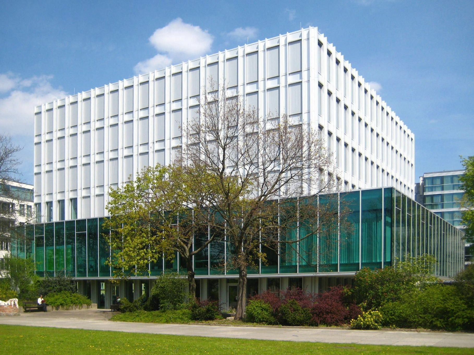 Building of the Heinrich Böll Foundation at Schumannstraße No. 8 in Berlin-Mitte. The building was constructed to a design by e2a (eckert eckert architects) Zürich and completed in 2008.